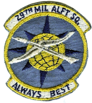 Emblem of the 29th Military Airlift Squadron - MAC